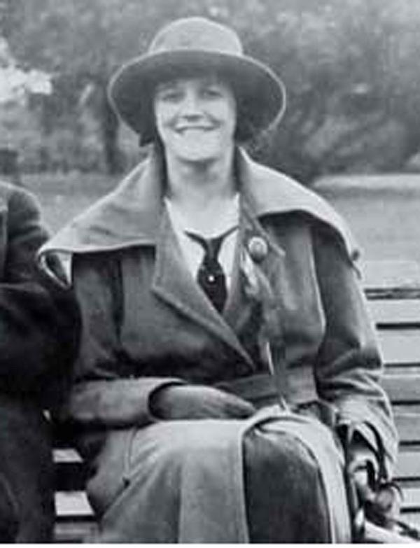 Gladys Wardale Greenwood, wife of of Ernest Albert Belcher 1922